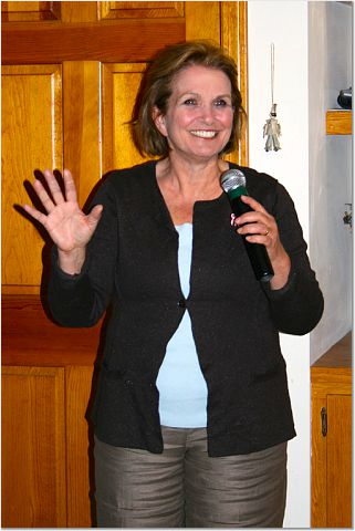 Elizabeth Edwards attends a house party in Brentwood, NH on October 26th, 2007Elizabeth Edwards at a New Hampshire House Party